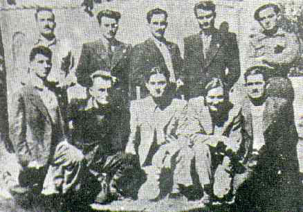 Decemvirii